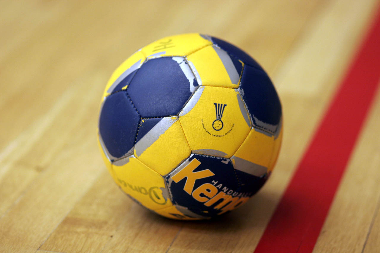 The ball to play handball. Size III for men.